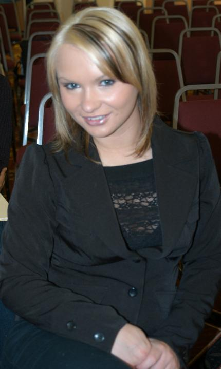 Katja Kassin at Penthouse Talent Call on Dec 14, 2004